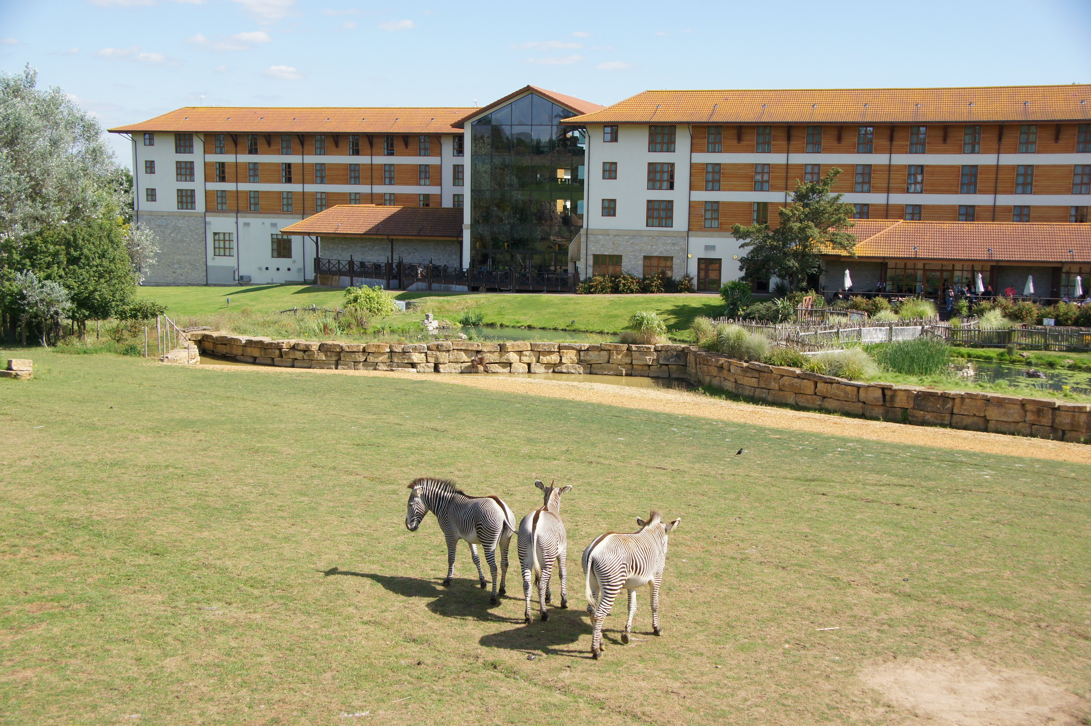 Chessington World of Adventure and Zoo.